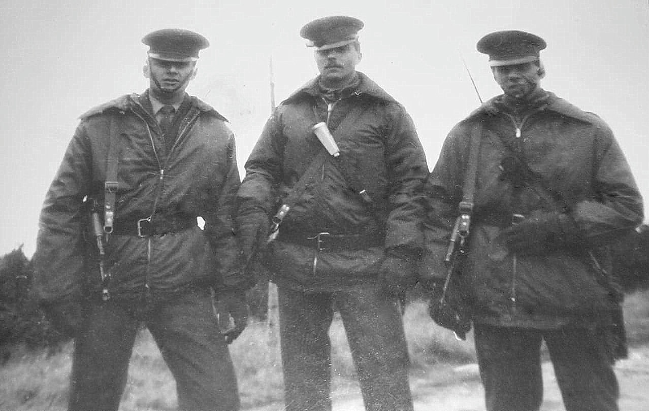 WOP post in Kamieńczyk